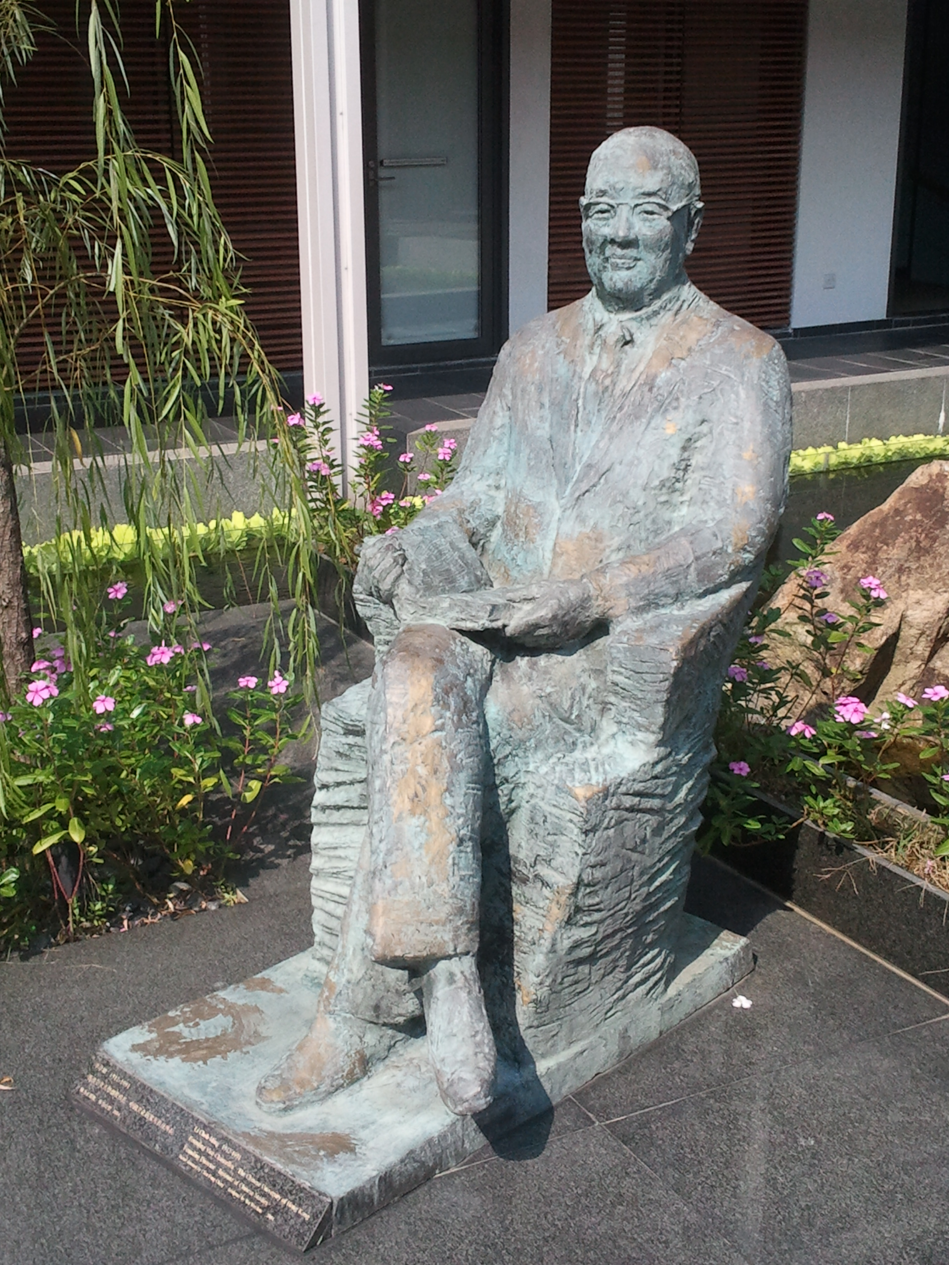 Dr Li Choh-ming's statue in CUHK Institue of Chinese Studies